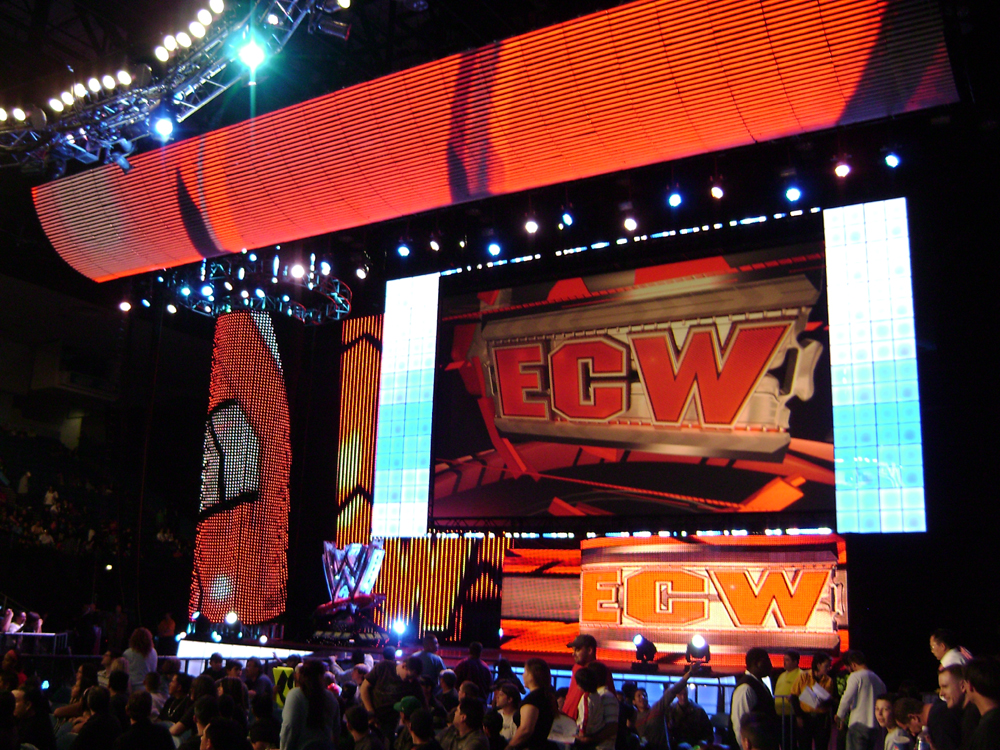 ECW Hi-Definition Stage